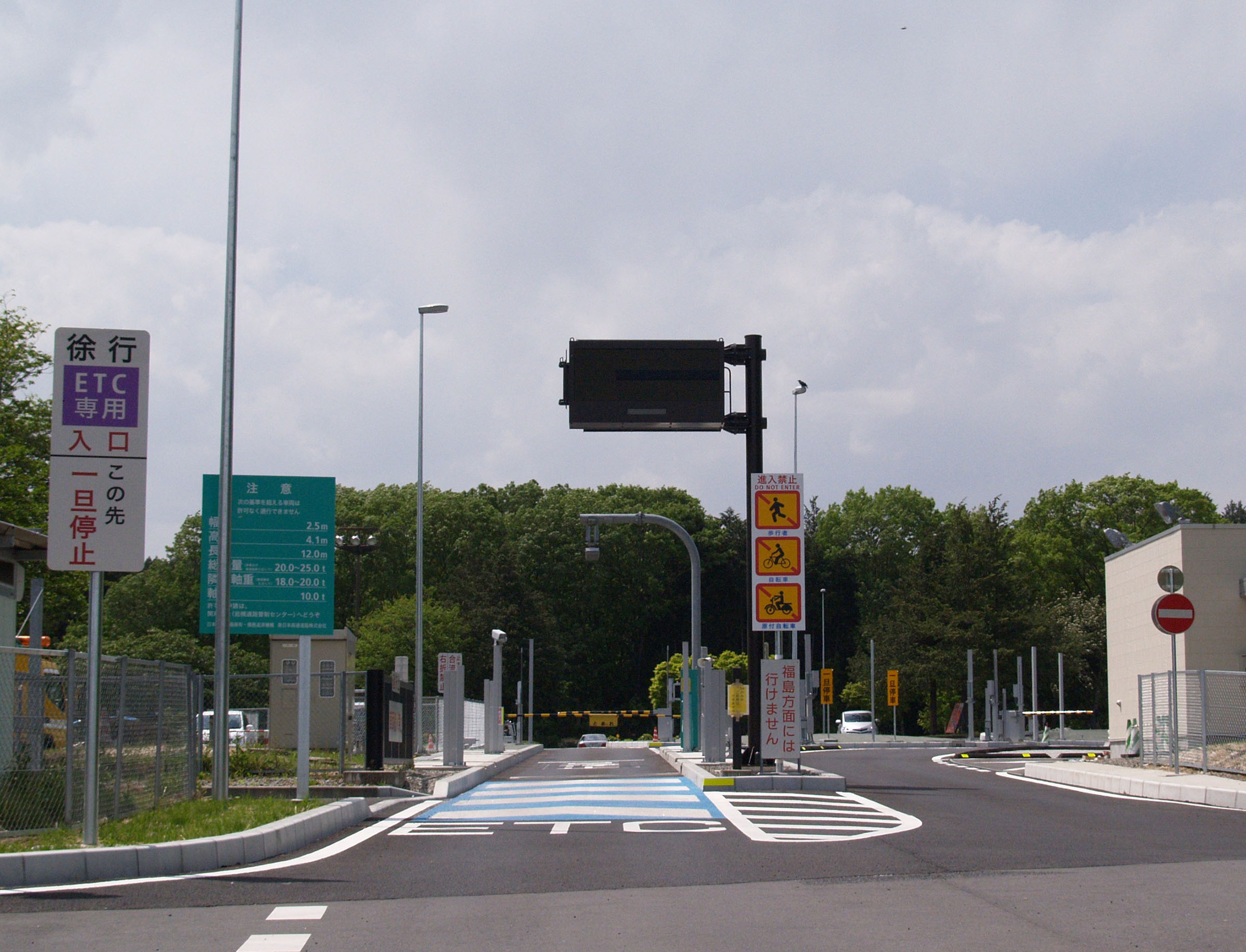 Kamikawachi Smart Interchange on the Tohoku Expressway inbound line for Tokyo